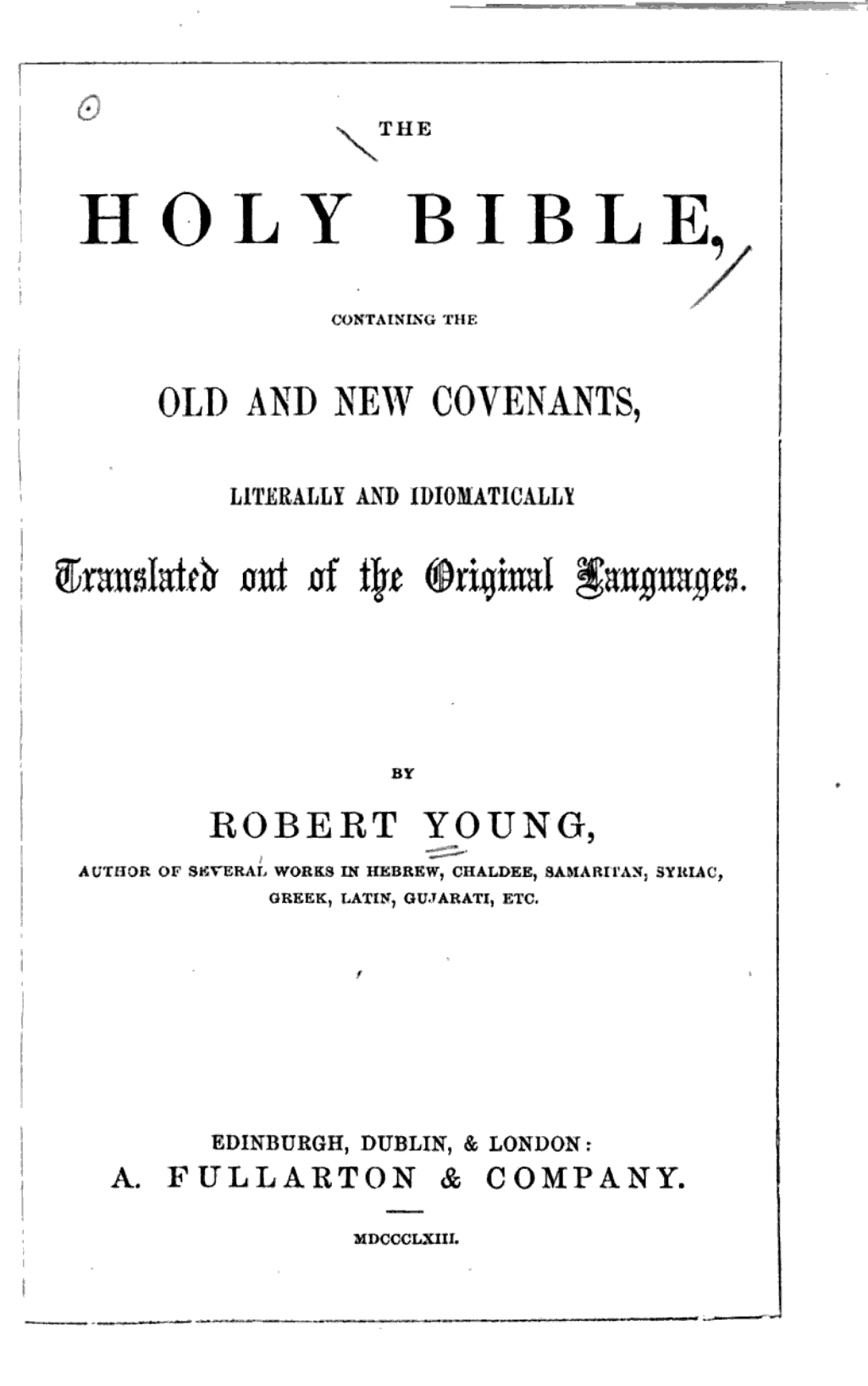 Young's Literal Translation - 1st ed., 1863 - title page. Full book on Commons here.